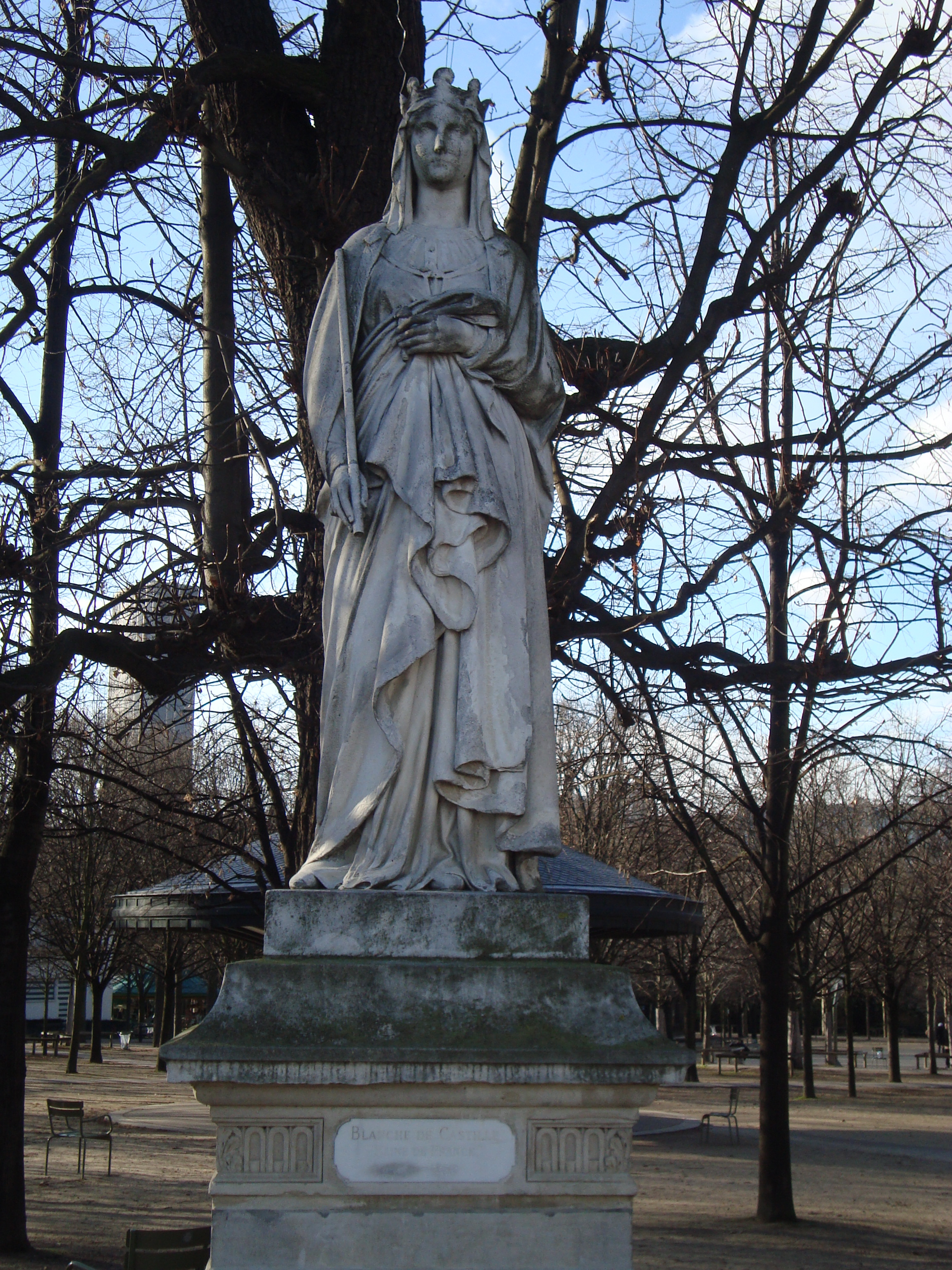 Statue of Blanche de Castille by Auguste Dumont (1801-1884) in the Jardin du Luxembourg, Paris